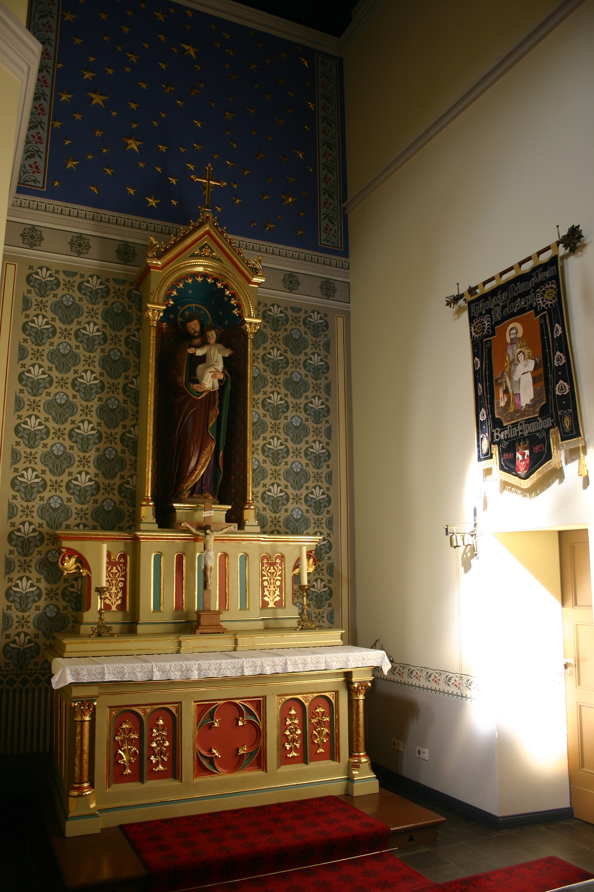 Side altar of "St. Marien am Behnitz" in Berlin-Spandau